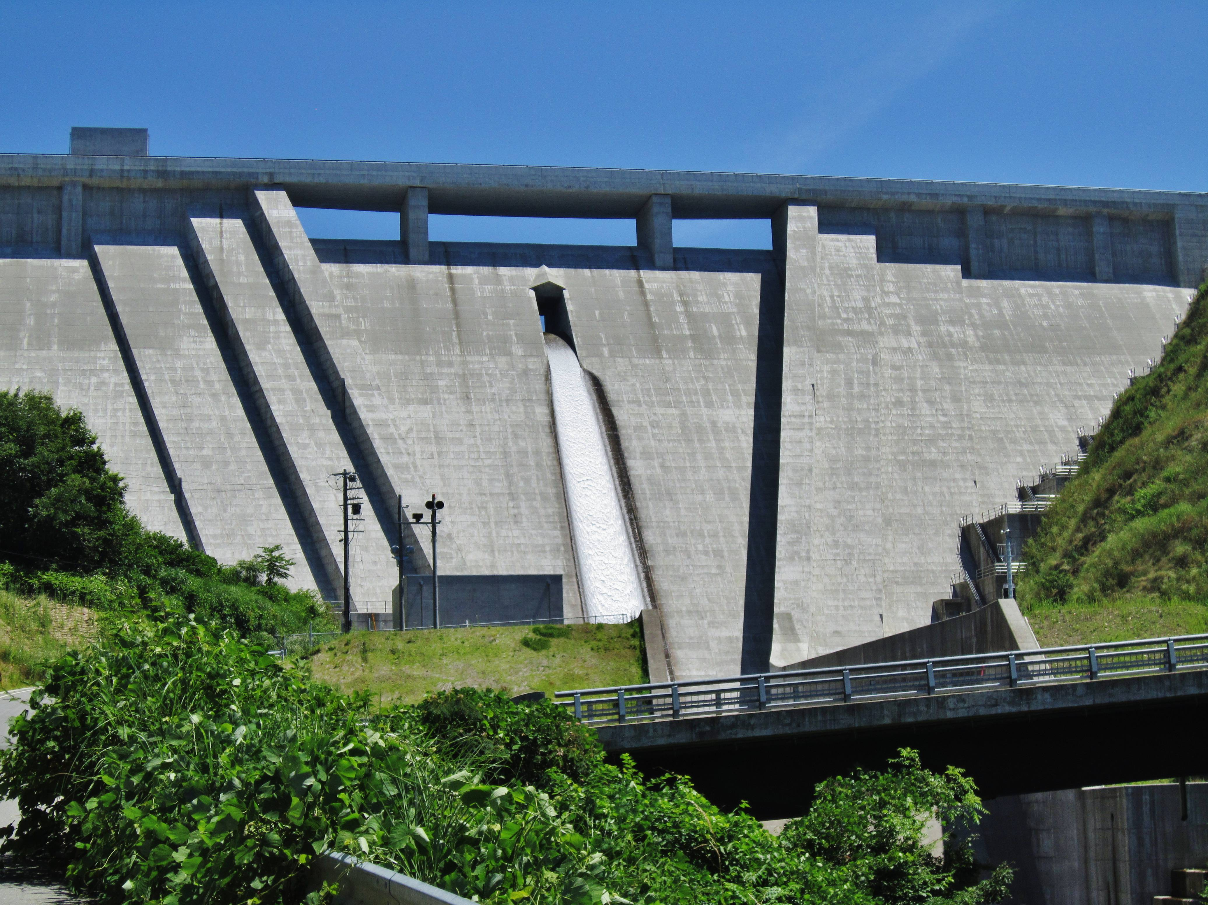 Nyukawa Dam.